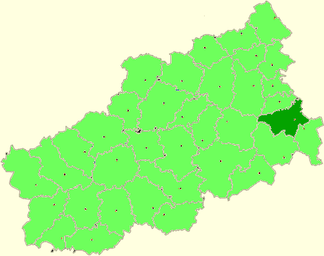 Tver Oblast map by Al Silonov